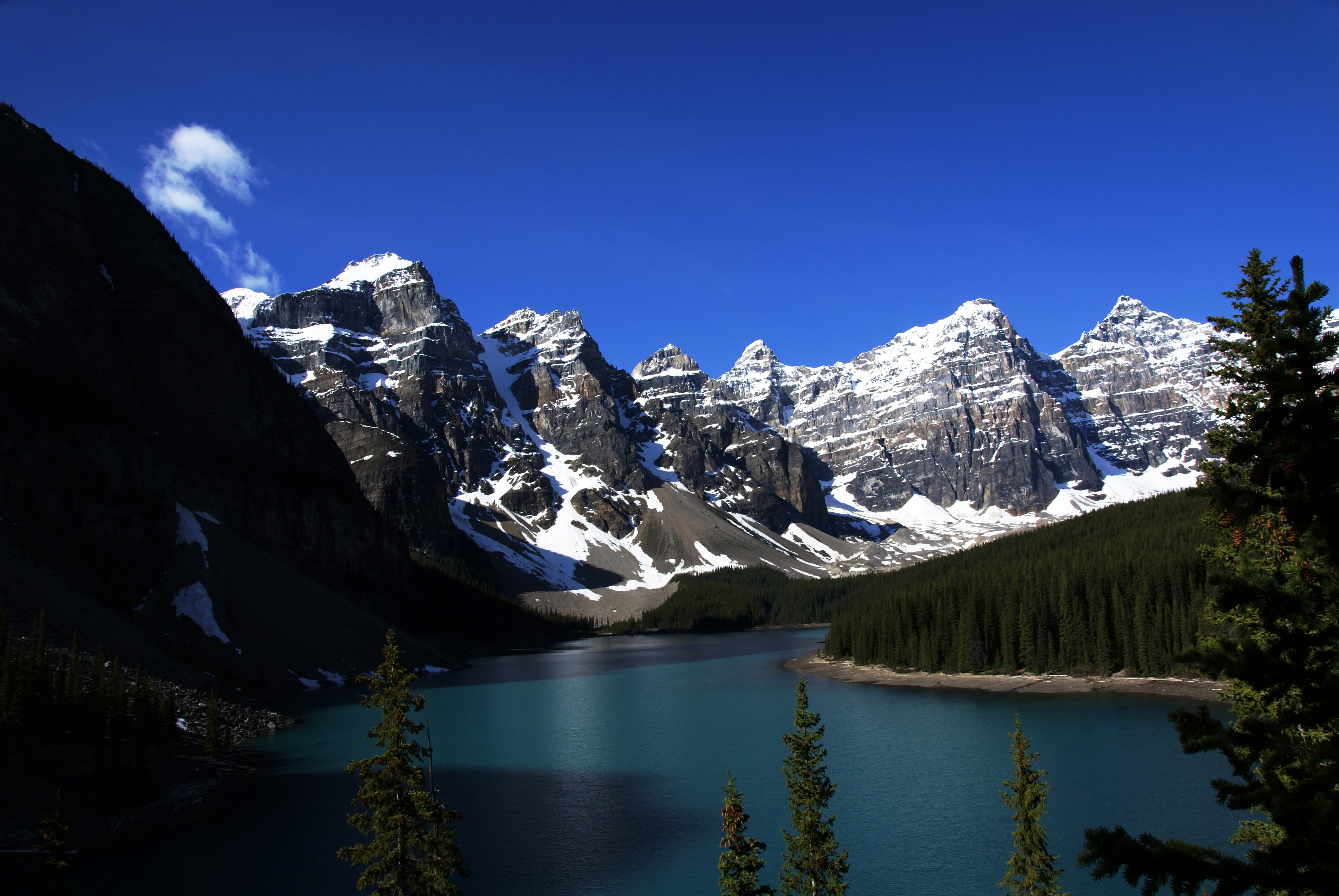 Moraine Lake from the Rockpile, Valley of the Ten Peaks, Alberta, Canada, June 19, 2008